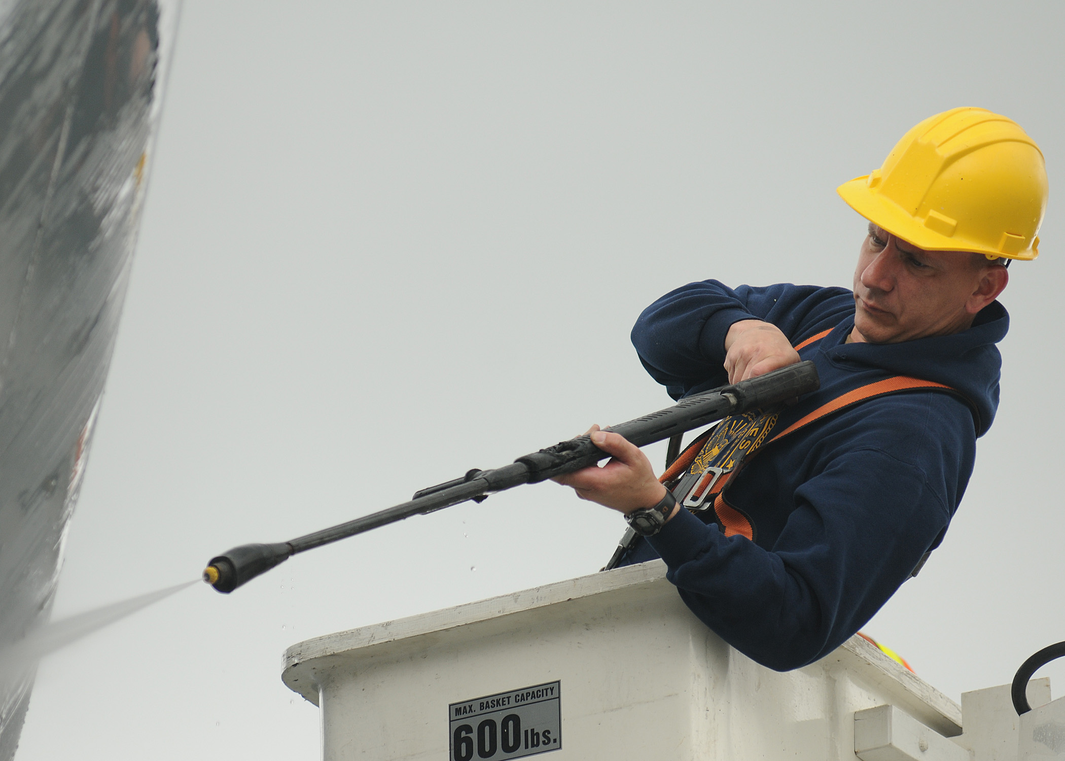 OAK HARBOR, Wash. (Sept. 10, 2010) Chief Aviation Electronics Technician (Sel.) John Thomson, from Lordsburg, N.M., assigned to the Garudas of Electronic Attack Squadron (VAQ) 134, uses a power washer to clean the surface of the EA-6B Prowler during the annual cleaning and inspection of the A-6 Intruder and EA-6B Prowler at the Navy Gateway Park at Naval Air Station Whidbey Island. (U.S. Navy photo by Mass Communication Specialist 2nd Class Nardel Gervacio/Released)